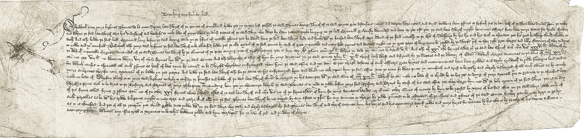 Petition of Thomas de la More, esquire, former Sheriff of Cumberland moaning about he and his men being threatened and beaten up by Thomas Percy, 1st Baron Egremont.